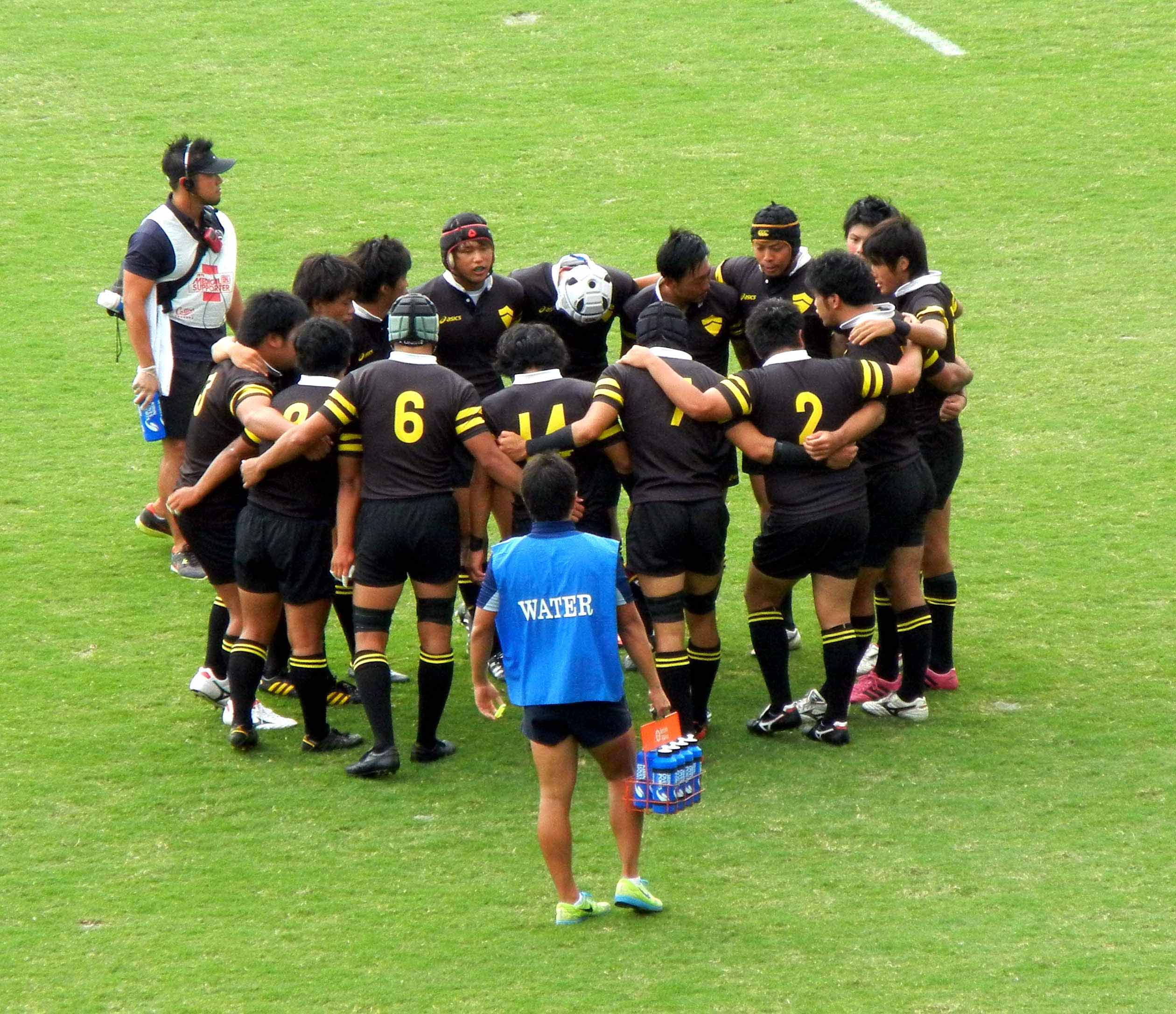 Aoyama Gakuin Rugby Football Club Players